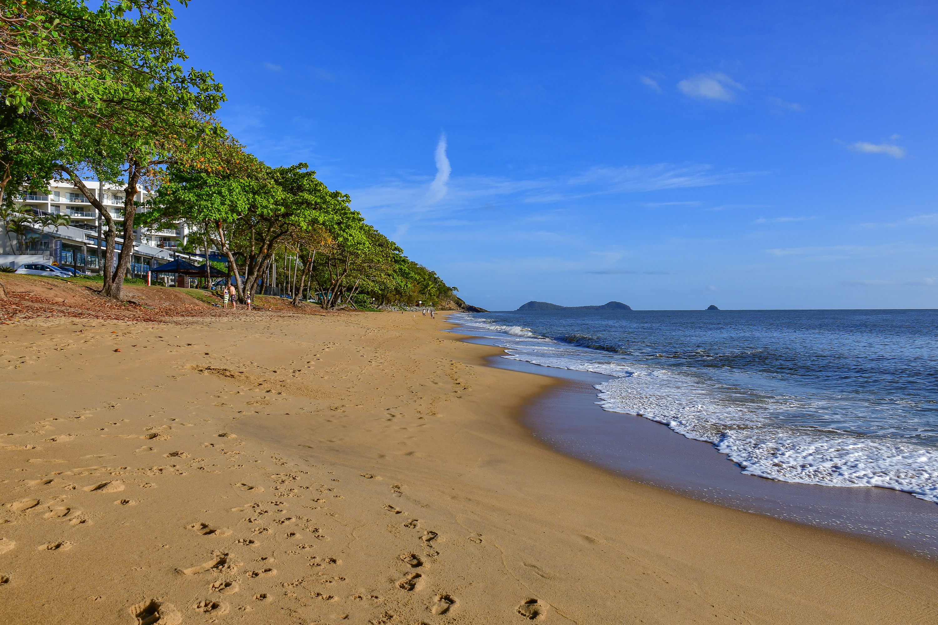 Sunny afternoon looking north along Trinity Beach towards Double Island in the distance.